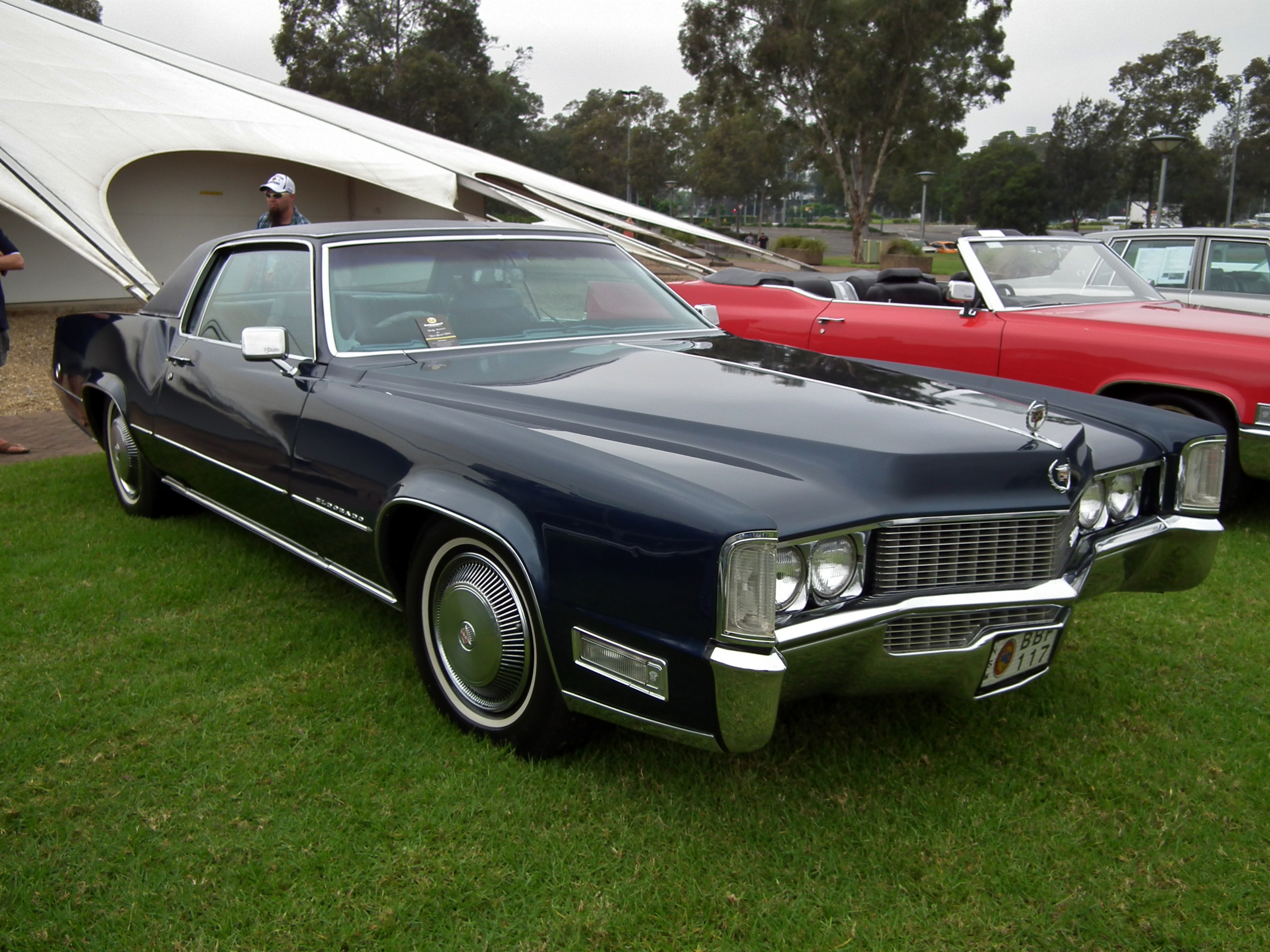 1969 Cadillac Fleetwood Eldorado coupe. Taken at the General Motors Display Day, held in the grounds of Penrith Panthers Club, Penrith NSW.